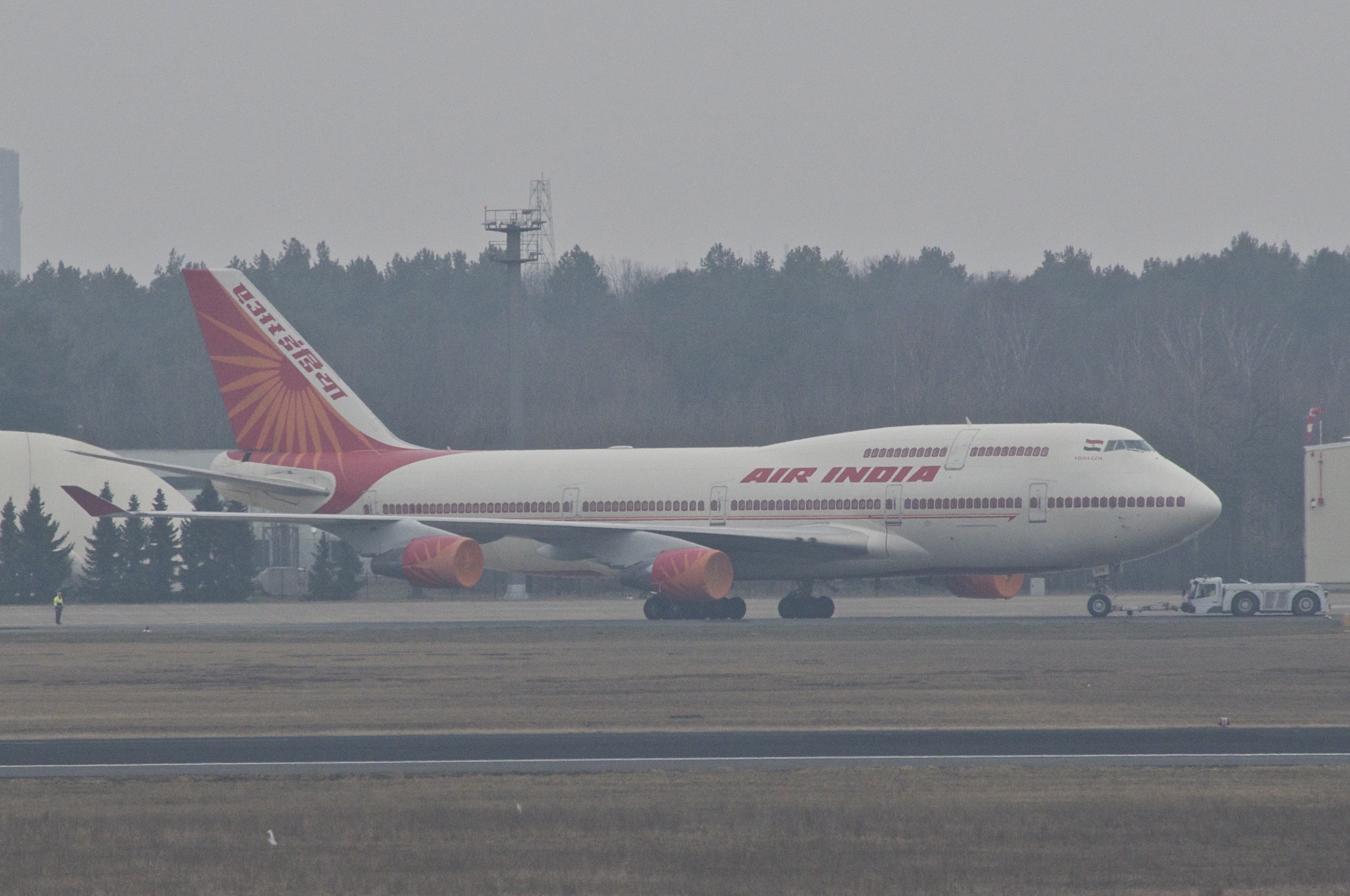 Pictures of the remaining AI 747s - in their latest scheme - are rare; the four-holers usually fly between India and Saudi Arabia, so pretty much between places that are no paradise for the aviation enthusiast...seen here in terrible weather on a state visit to Germany... This Boeing 747-437 took its first flight on November 4, 1996 and delivered to AI on November 15, 1996...(c/n 28095/ 1093)